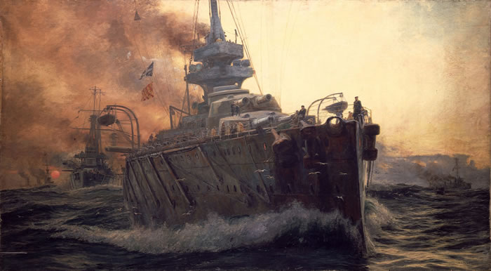 Oil Painting of First Battle Cruiser Squadron of Grand Fleet c. 1915. Battleship in lead (appears to be of the King George V class), battlecruisers astern, destroyer to right